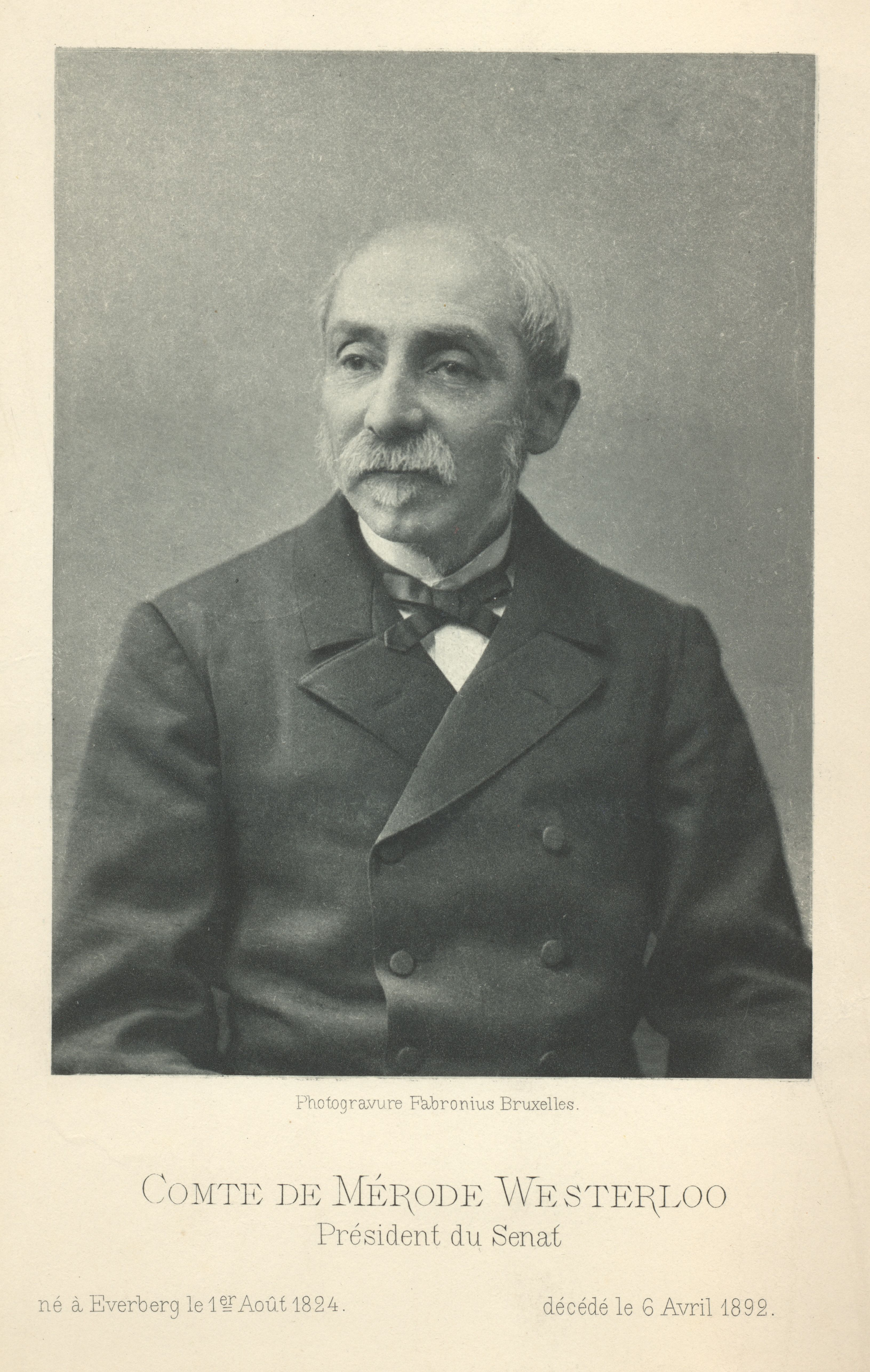 Portrait of Count Charles-Antoine-Ghislain de Mérode-Westerloo, Marques of Westerlo, Prince of Grimbergen, Rubempré and Everberg. President of the Belgian Senate, Ministre d'Etat and Burgomaster of Westerlo.